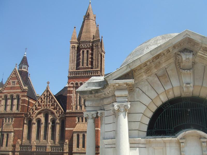 Brown Hart Gardens, London, with a view towards the Ukrainian Catholic Cathedral.